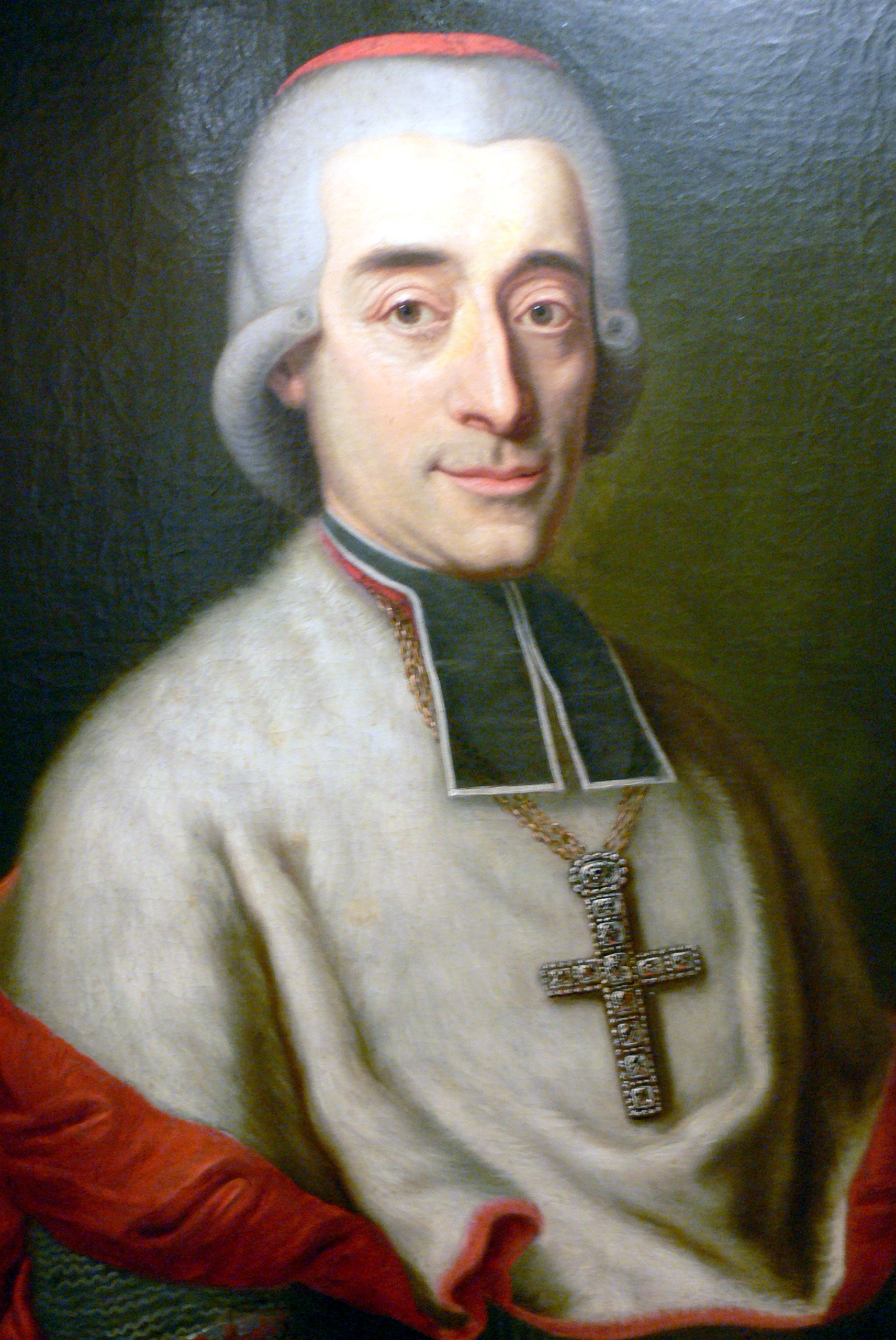 Portrait of Joseph Franz Anton von Auersperg (1734-1795), bishop of Passau